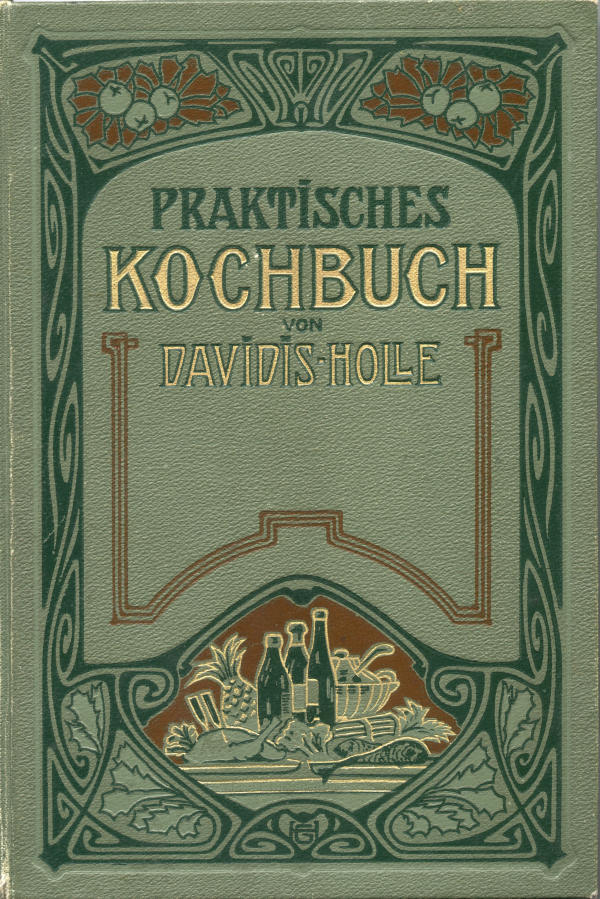 cookbook by Henriette Davidis and Luise Holle, 41. Ed. from 1904